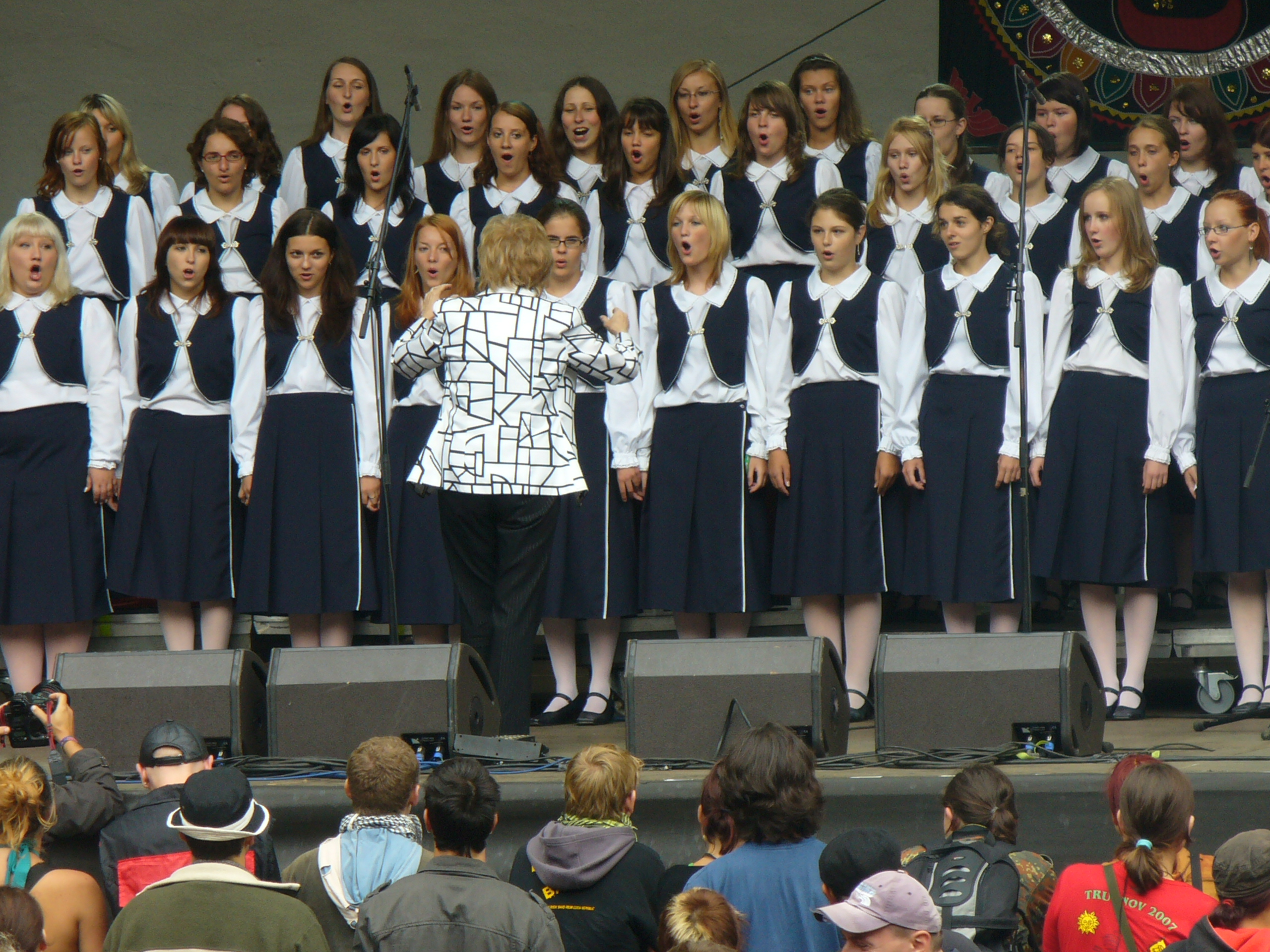 Bambini di Praga, childrens choir from Prague, Czech Republic. Performing at Trutnov Open Air Music Festival, Trutnov, Czech Republic (2007)